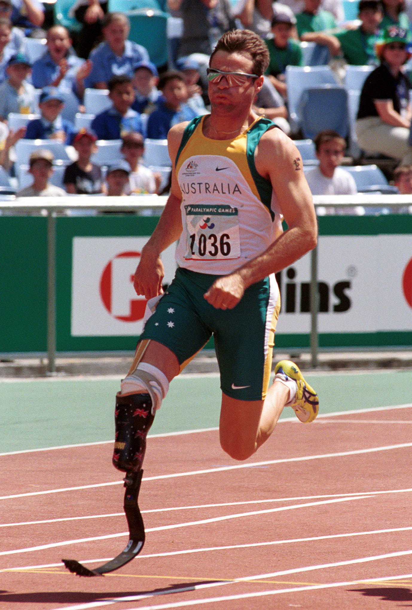 Action shot of Australian track athlete Neil Fuller sprinting during a race at the 2000 Sydney Paralympic Games